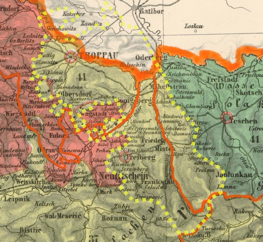 Area of Lach dialects on a map from 1855